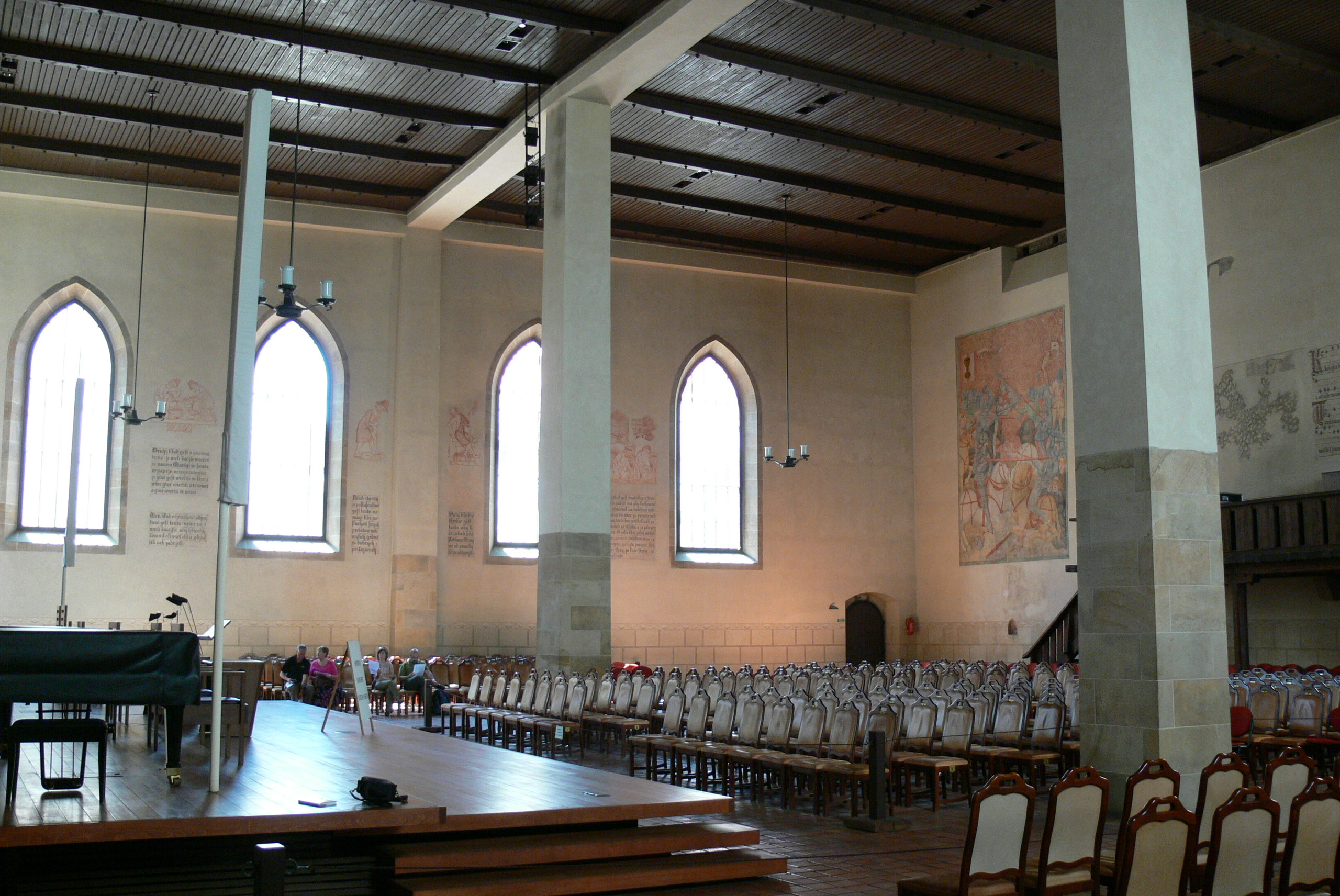 Bethlehem chapel ( Prague ). Interior.